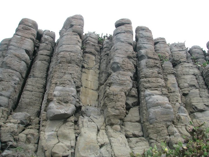 This is a natural landscape in Penghu, Taiwan.